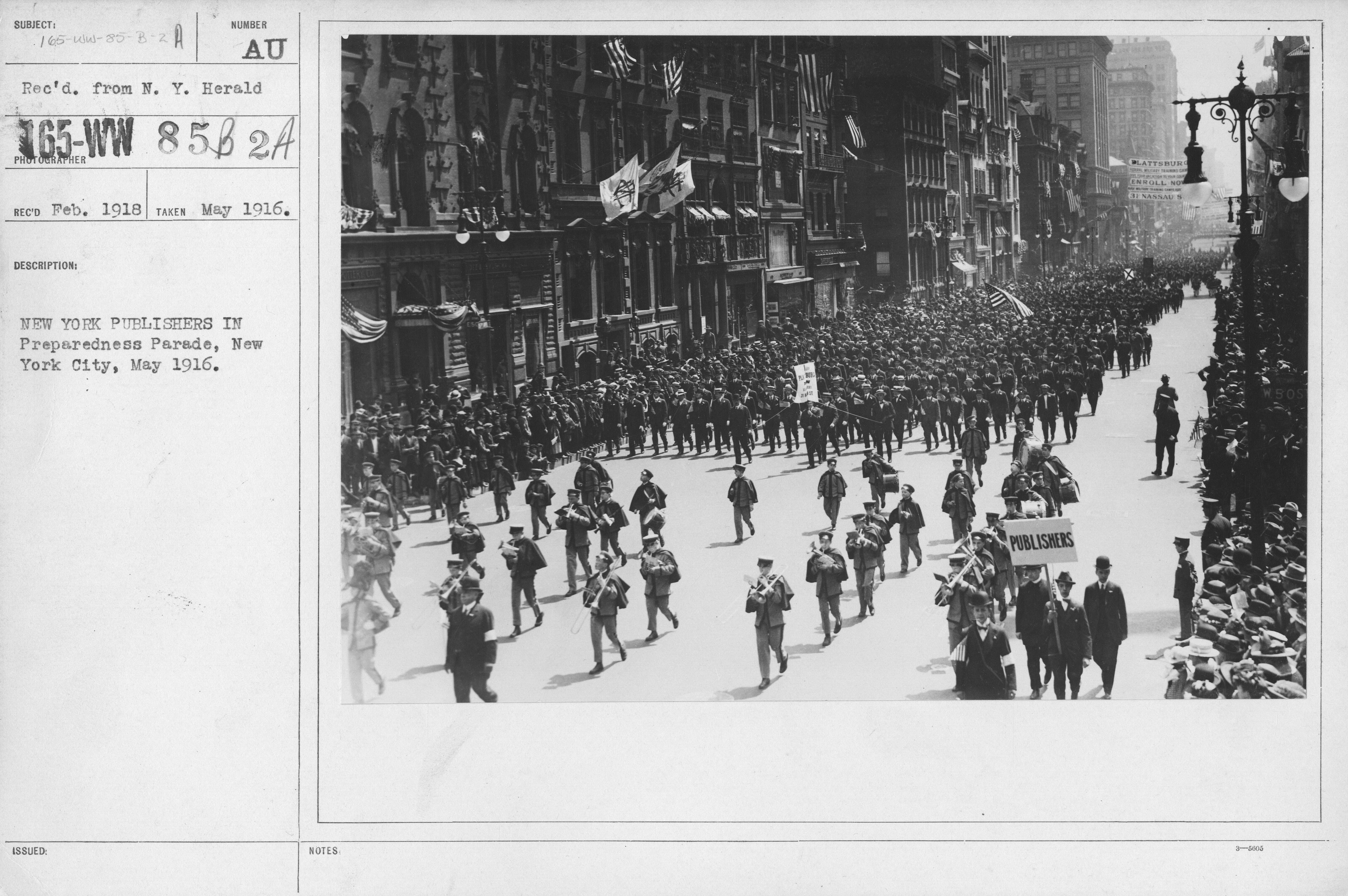 Scope and content: Date Taken: 1916. - Photographer: N. Y. Herald